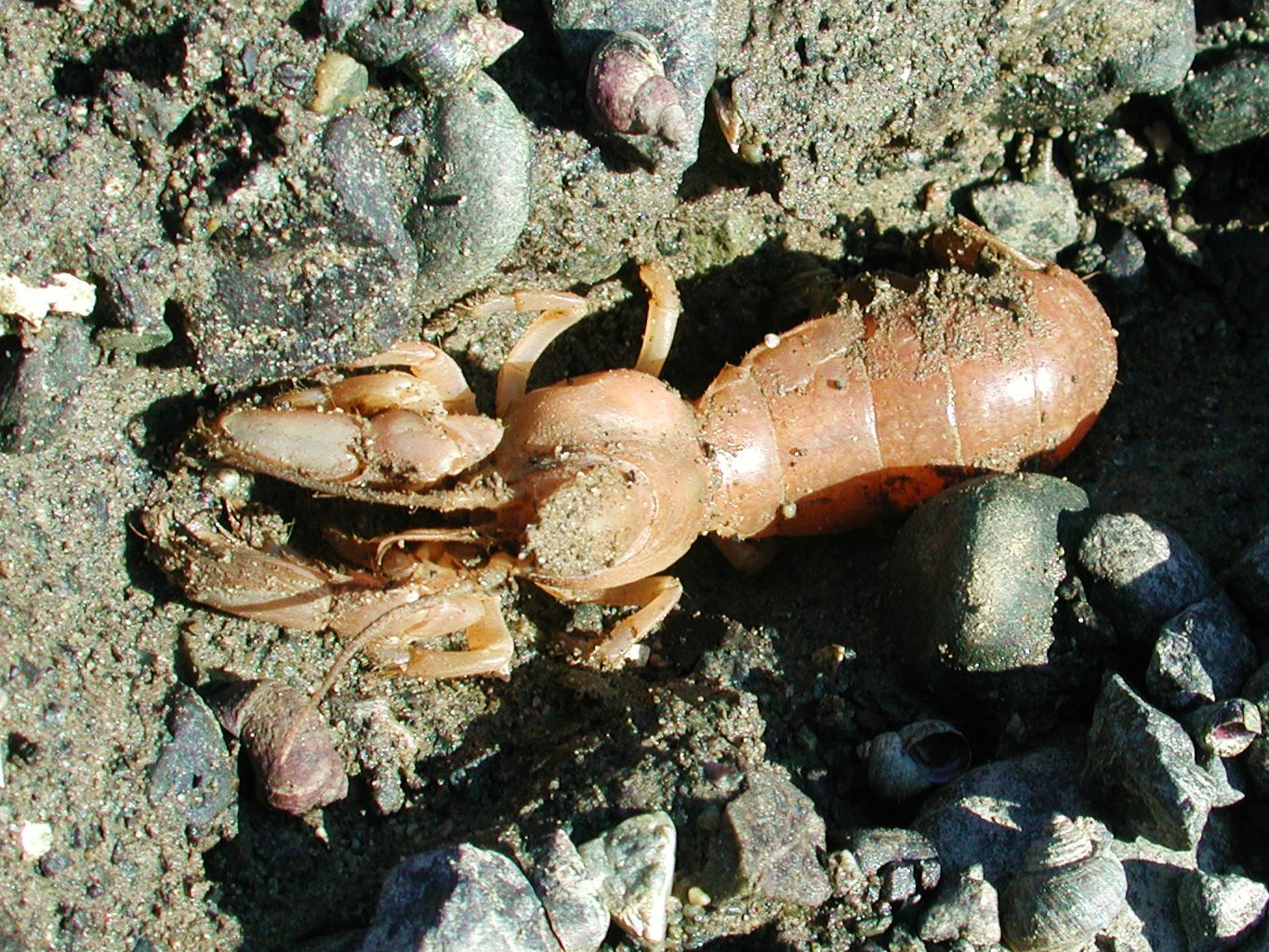 A mud lobster found under a beach rock on Orcas Island, WA, USA.